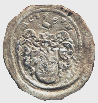 The seal of Christopher Harant from Polžice and Bezdružice, 1610